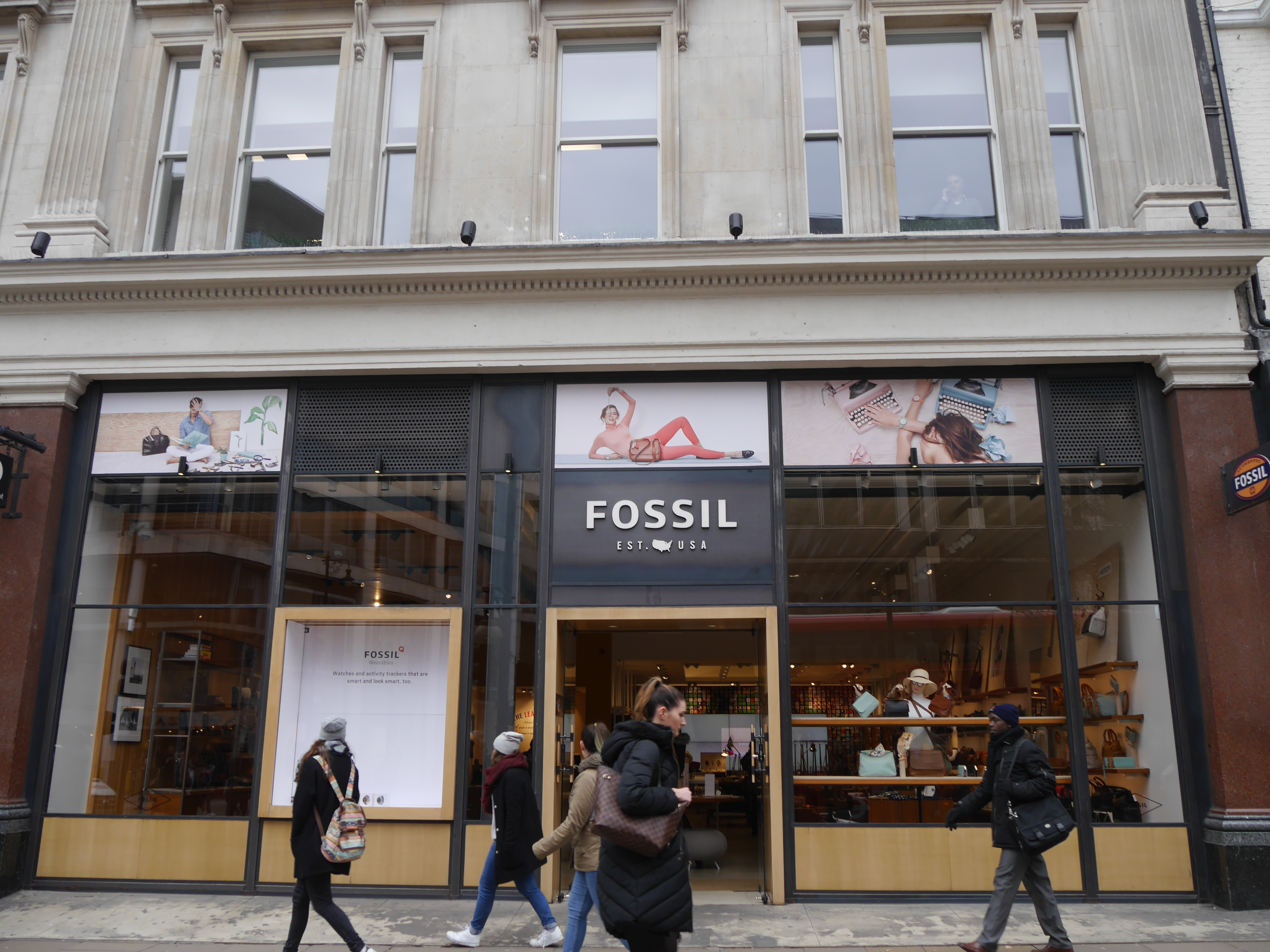 Oxford Street, London, March 2016